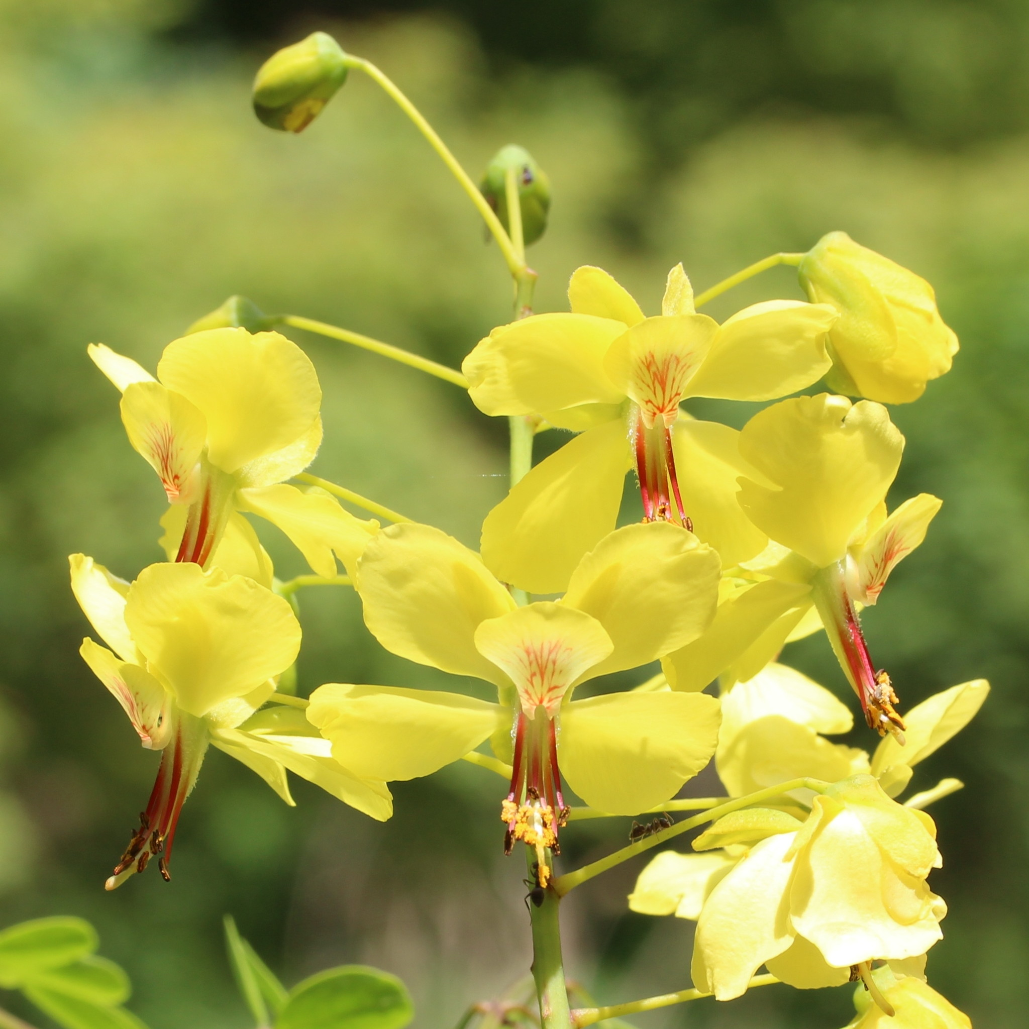 Caesalpinia decapetala var. japonica, flowers in Kuwana, Mie, Japan.